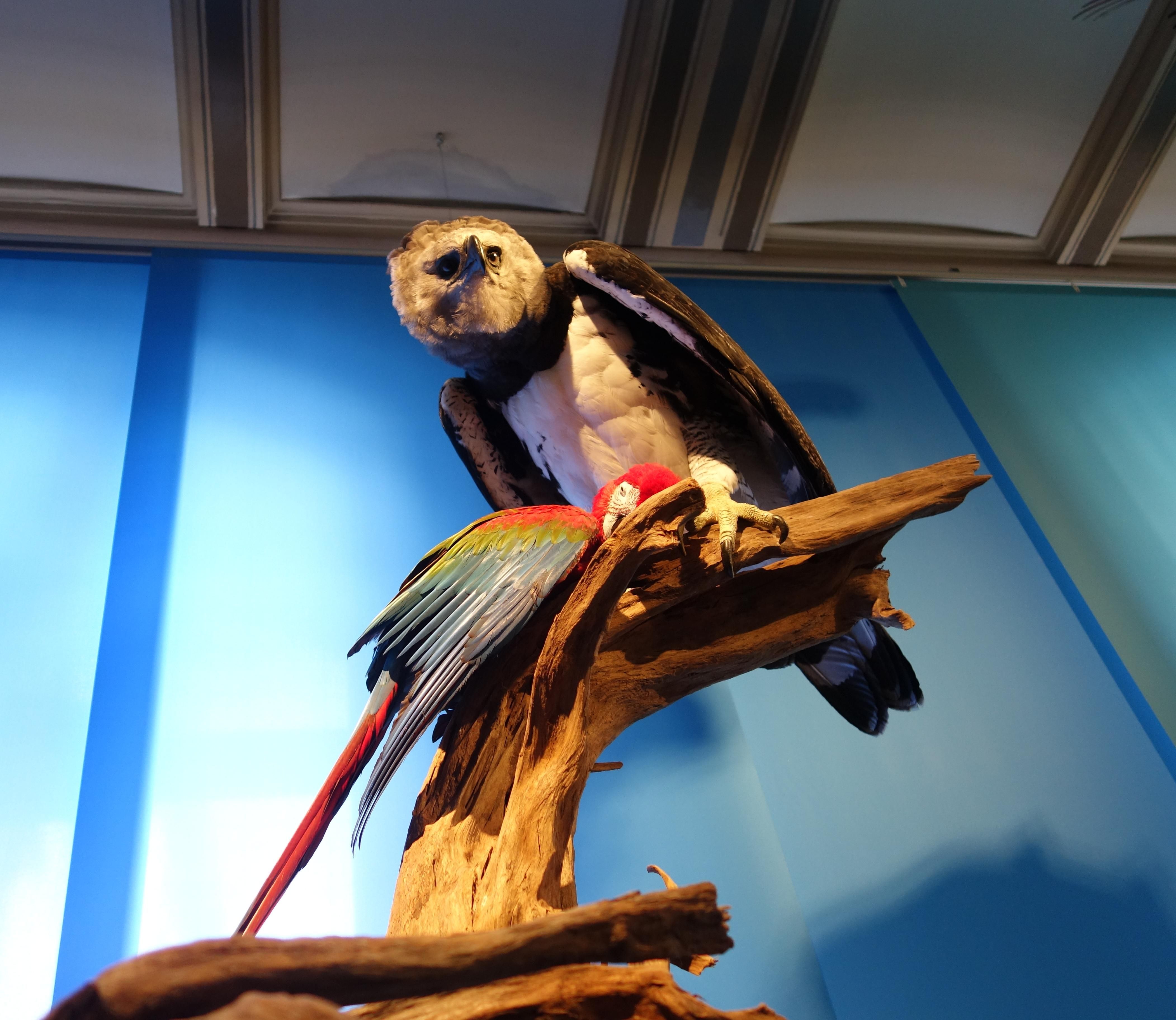 Harpia harpyja preying on Ara. Stuffed specimens on exhibit at the Museum für Naturkunde, Berlin